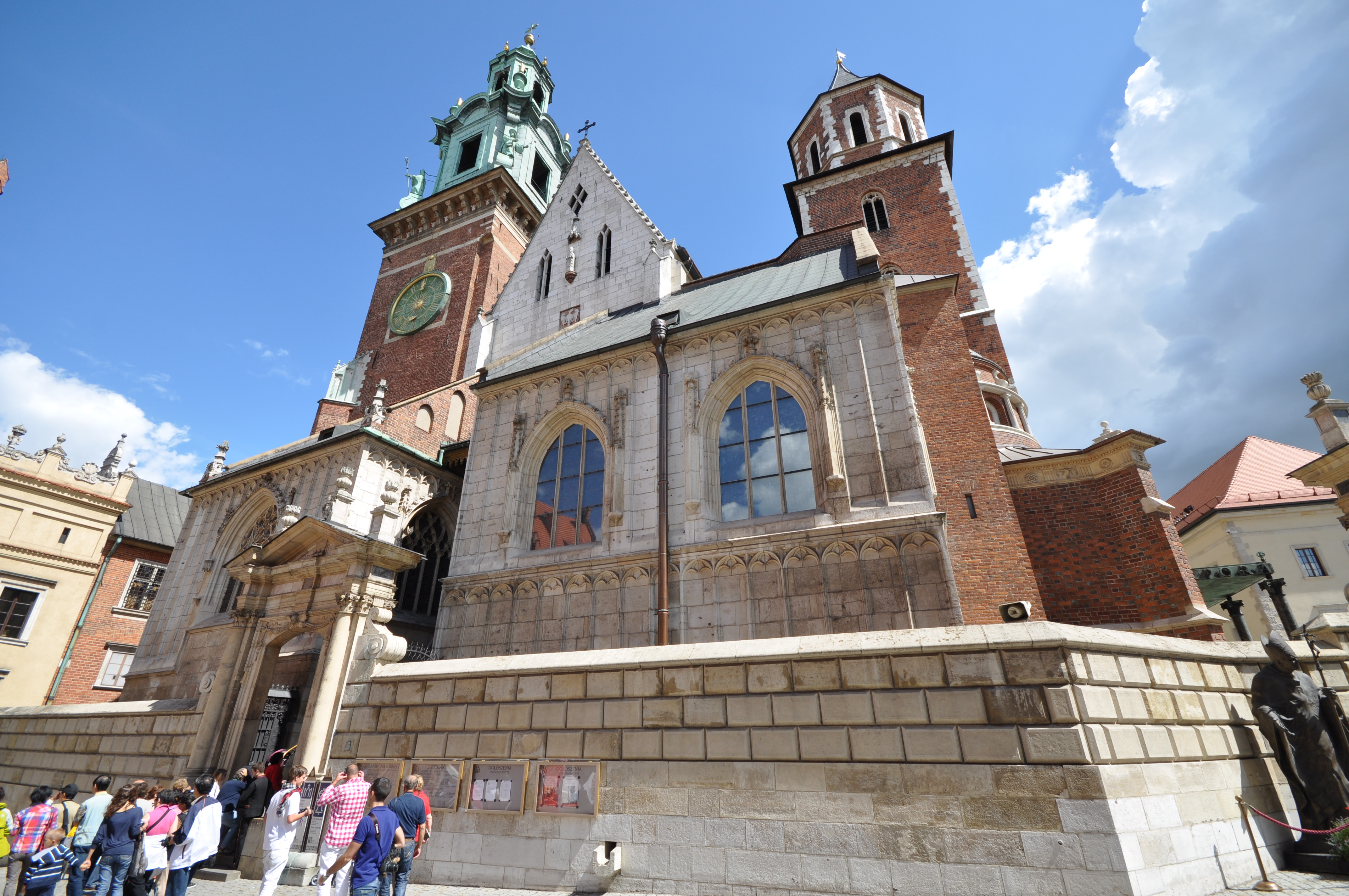 The Royal Archcathedral Basilica of Saints Stanislaus and Wenceslaus on the Wawel Hill (Polish: królewska bazylika archikatedralna śś. Stanisława i Wacława na Wawelu), also known as the Wawel Cathedral (Polish: katedra wawelska), is a Roman Catholic church located on Wawel Hill in Kraków, Poland. More than 900 years old, it is the Polish national sanctuary and traditionally has served as coronation site of the Polish monarchs as well as the Cathedral of the Archdiocese of Kraków. Pope John Paul II offered his first Mass as a priest in the Crypt of the Cathedral on 2 November 1946. The current, Gothic cathedral, is the third edifice on this site: the first was constructed and destroyed in the 11th century; the second one, constructed in the 12th century, was destroyed by a fire in 1305. The construction of the current one begun in the 14th century on the orders of bishop Nanker